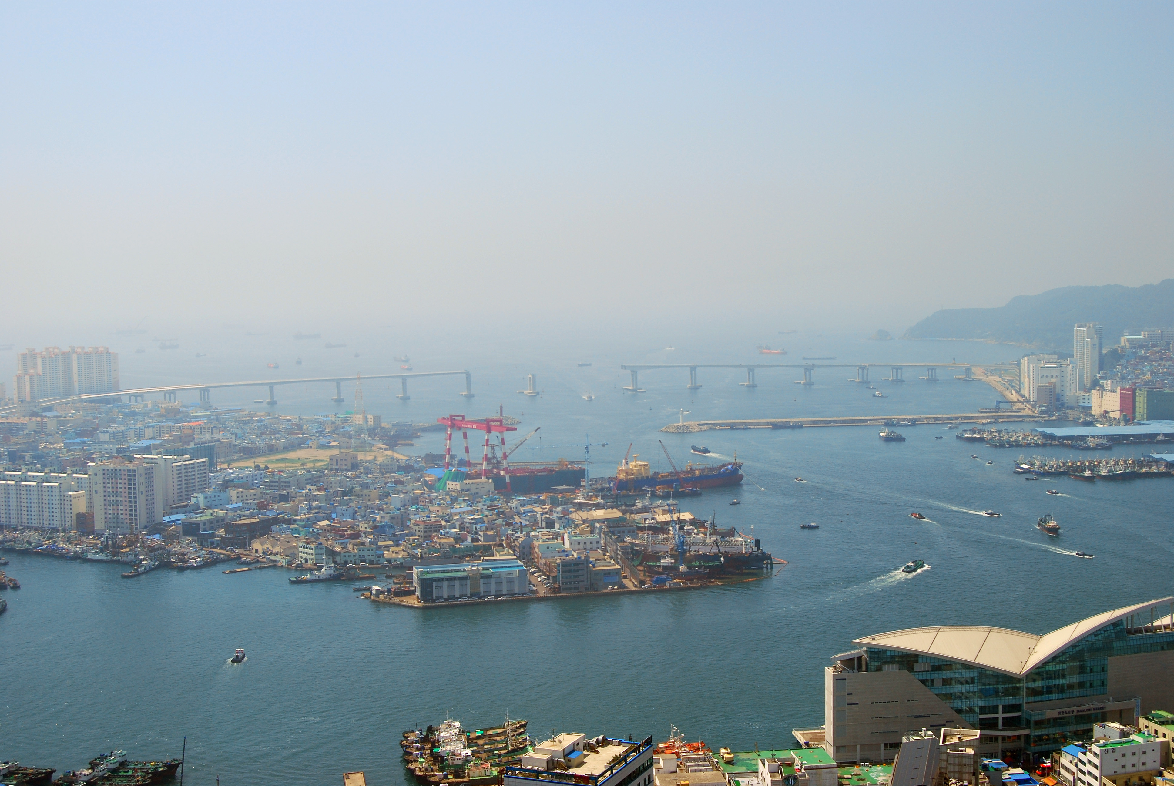 My pic taken from Busan tower in July 2007